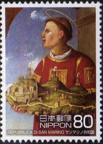 Saint Marinus Painting Stamp of Japan.